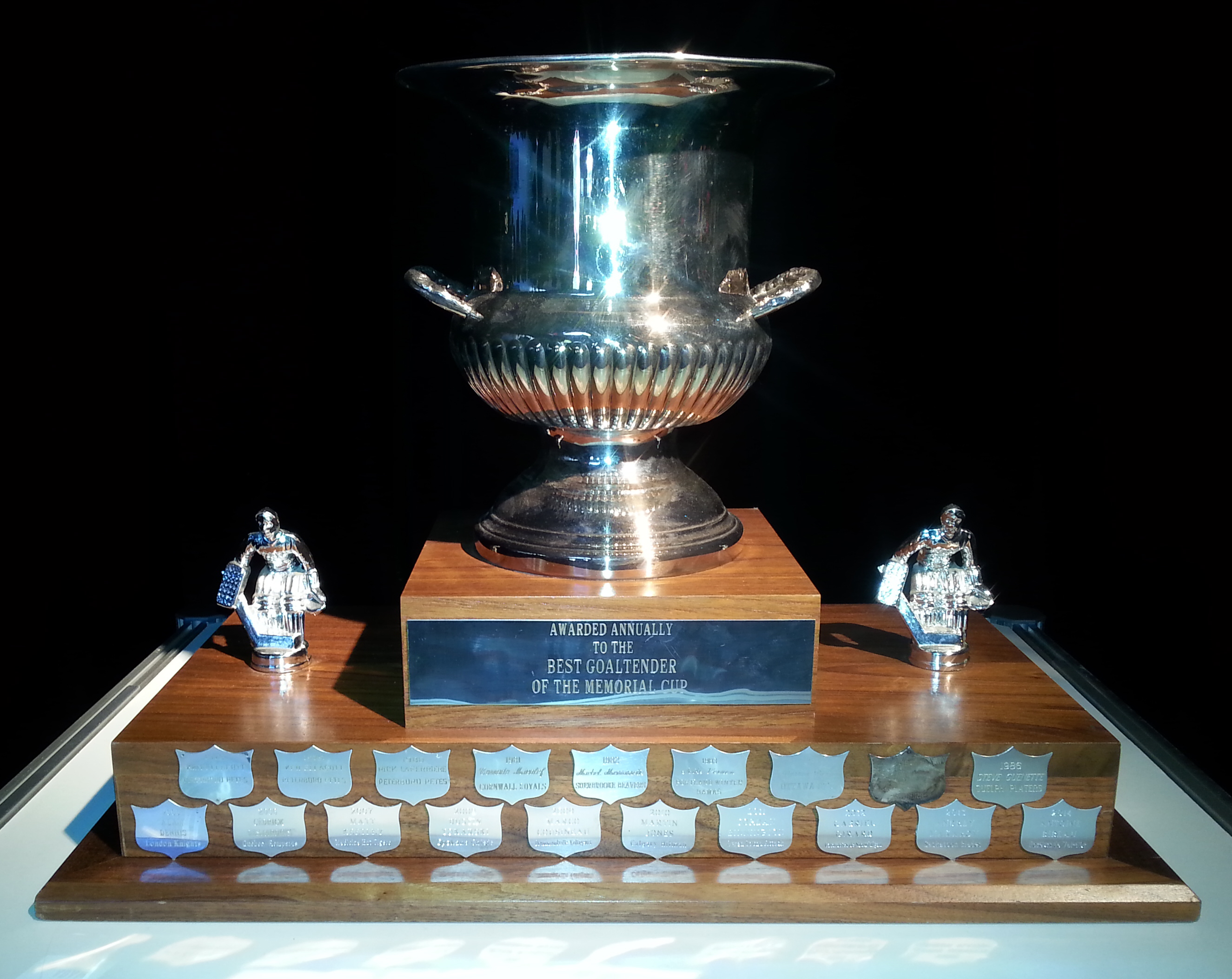 Photograph of Hap Emms Memorial Trophy from 2015 Memorial Cup